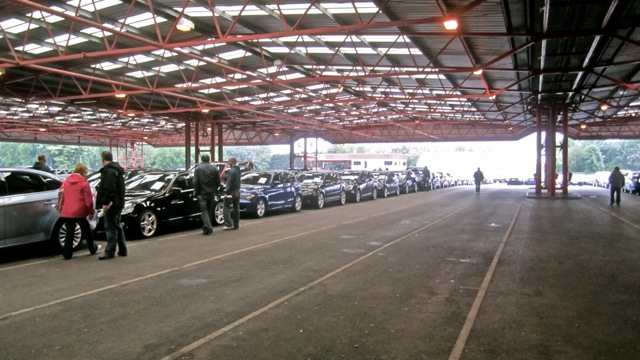 British Car Auctions in Belle Vue, Manchester